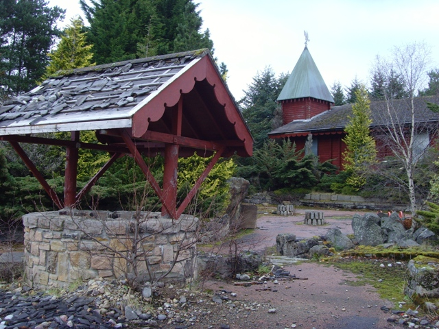 Santa Claus Land The highlight of childhood visits to Aviemore in the 1970s, this theme park was revived for a few years in the 1990s but is now a derelict ruin. This photo of the wishing well and Santa's workshop was taken from the site of the now-demolished Gingerbread House and Craft Village.